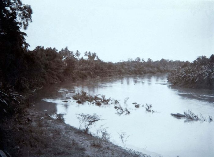 The Ciberang river, behind the house of the 'assistent-resident' in Rangkasbitung